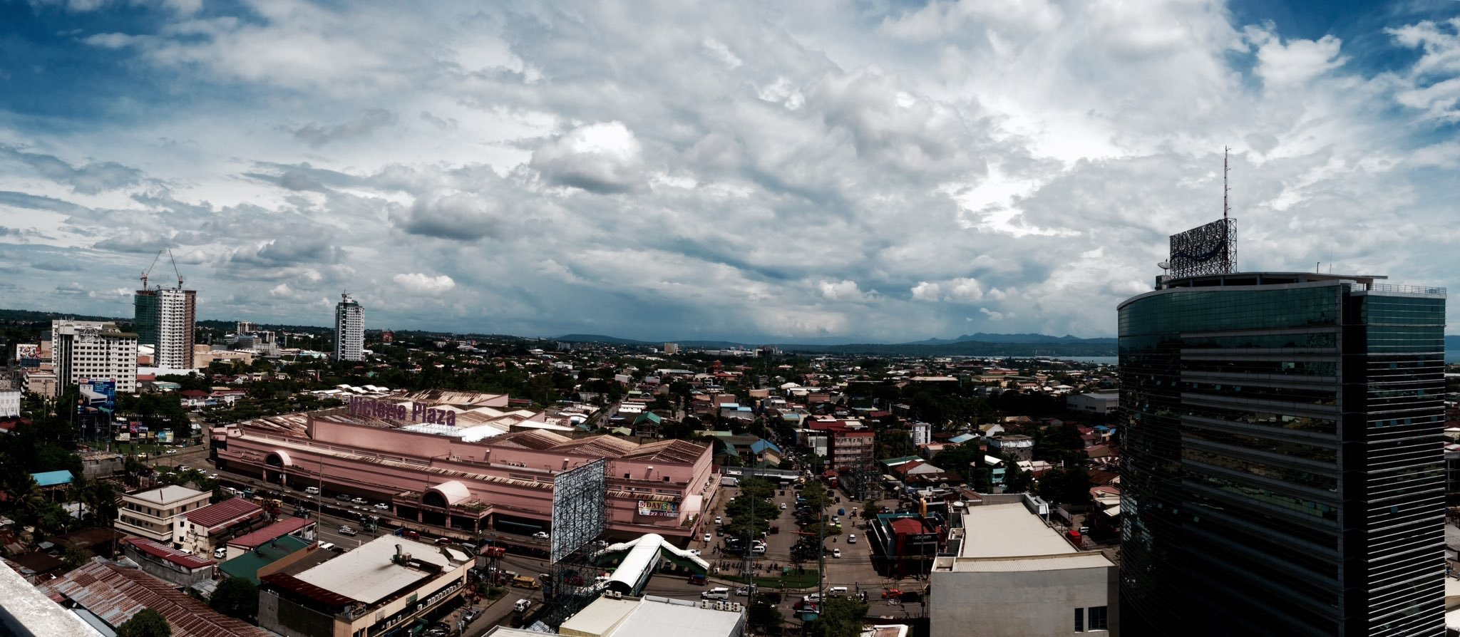 View from Pryce Tower Rooftop